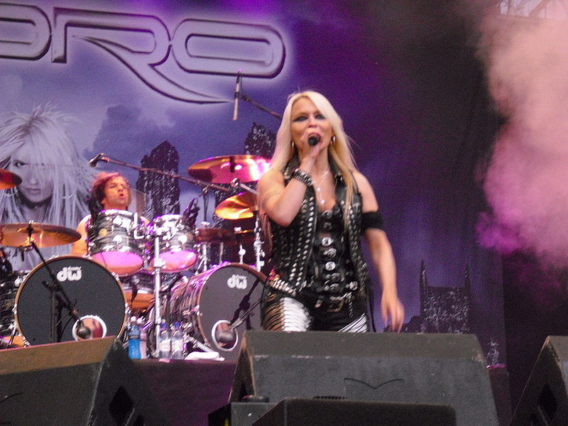 Doro performing live at Norway Rock Festival in 2009